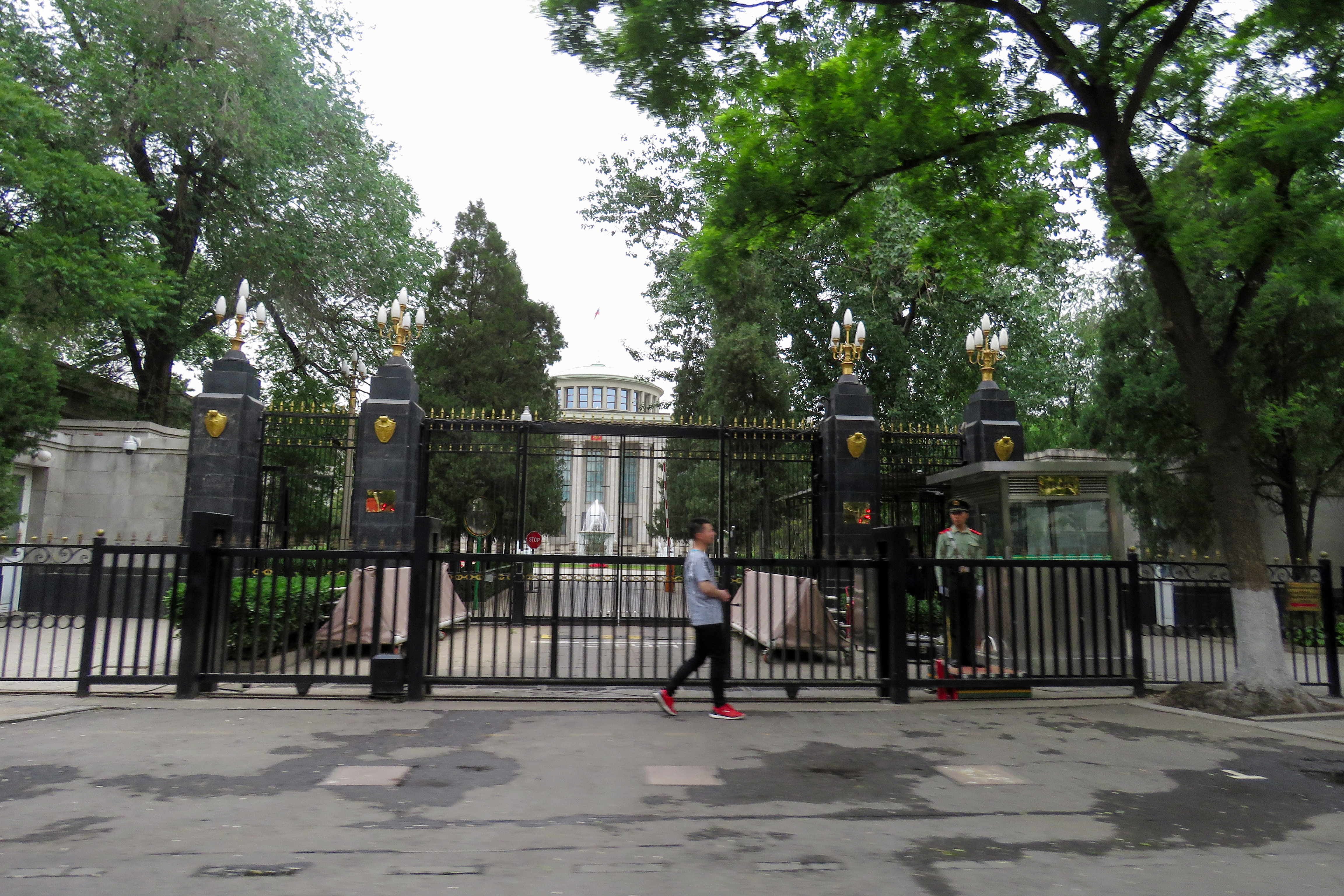 Happened to pass here with a glimpse.